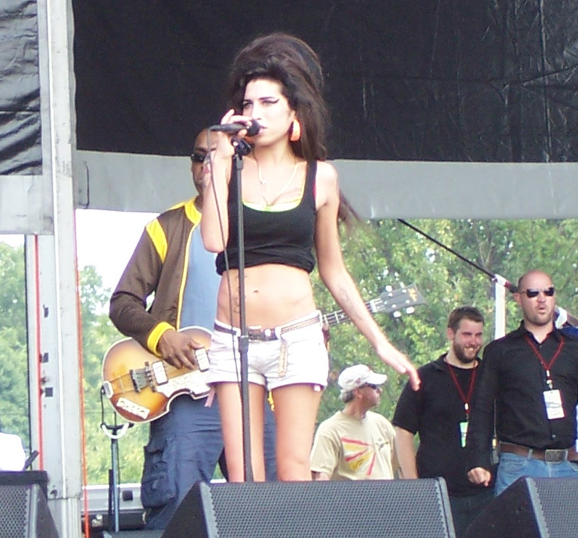 Amy Winehouse at the Virgin Festival.